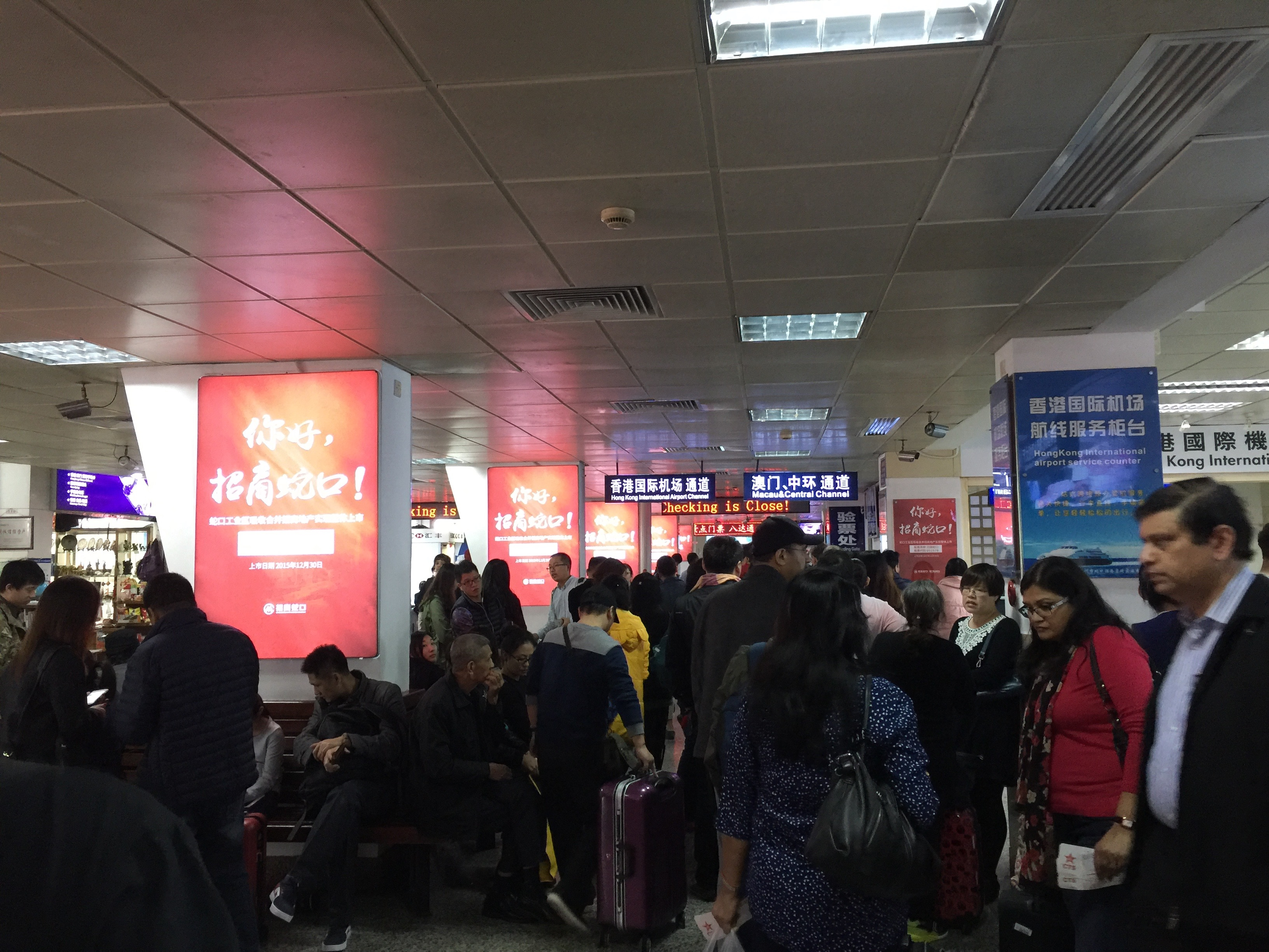 Shekou Ferry Terminal, Shenzhen, China